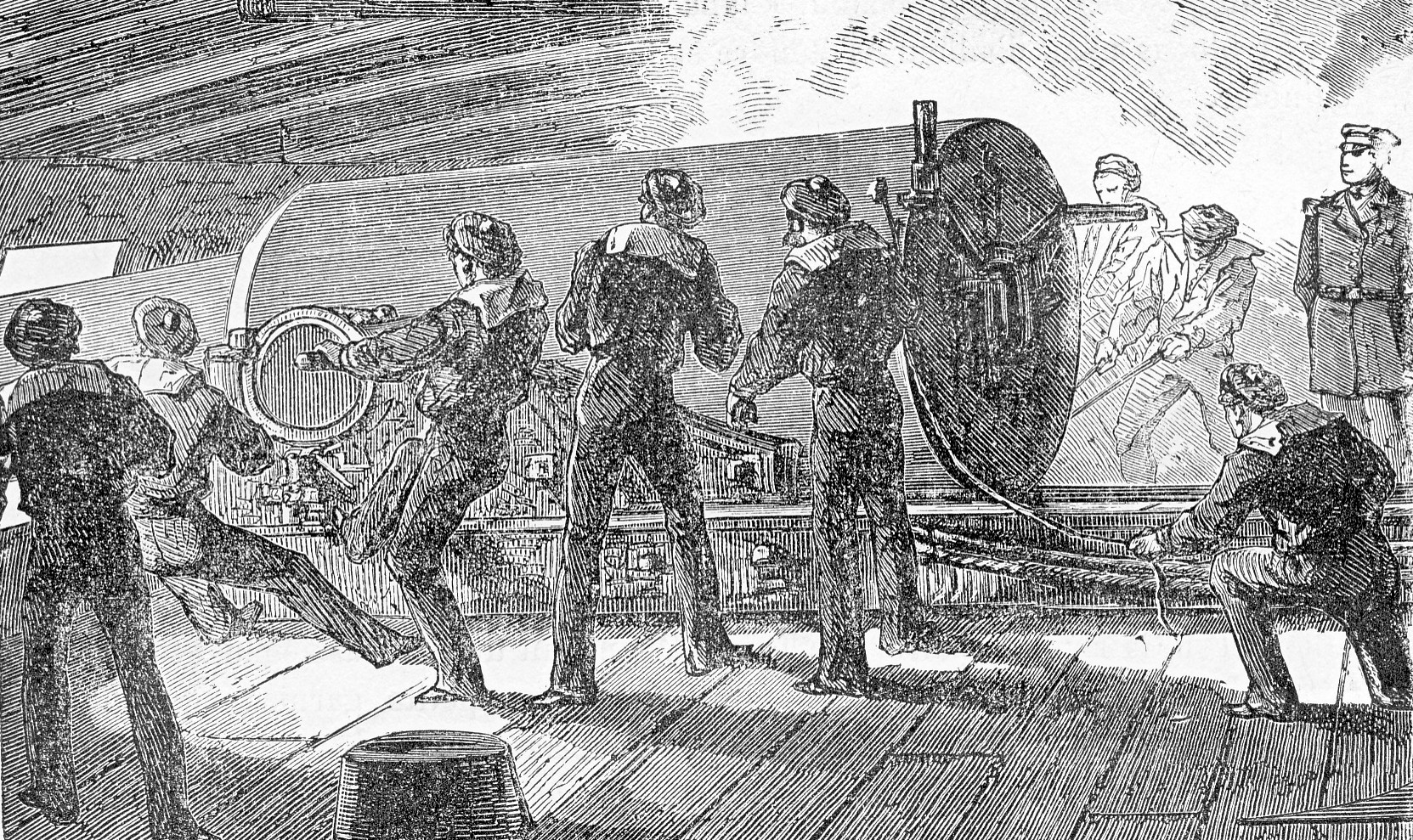 The French cruiser Nielly engages Chinese shore batteries at Zhenhai, 1 March 1885